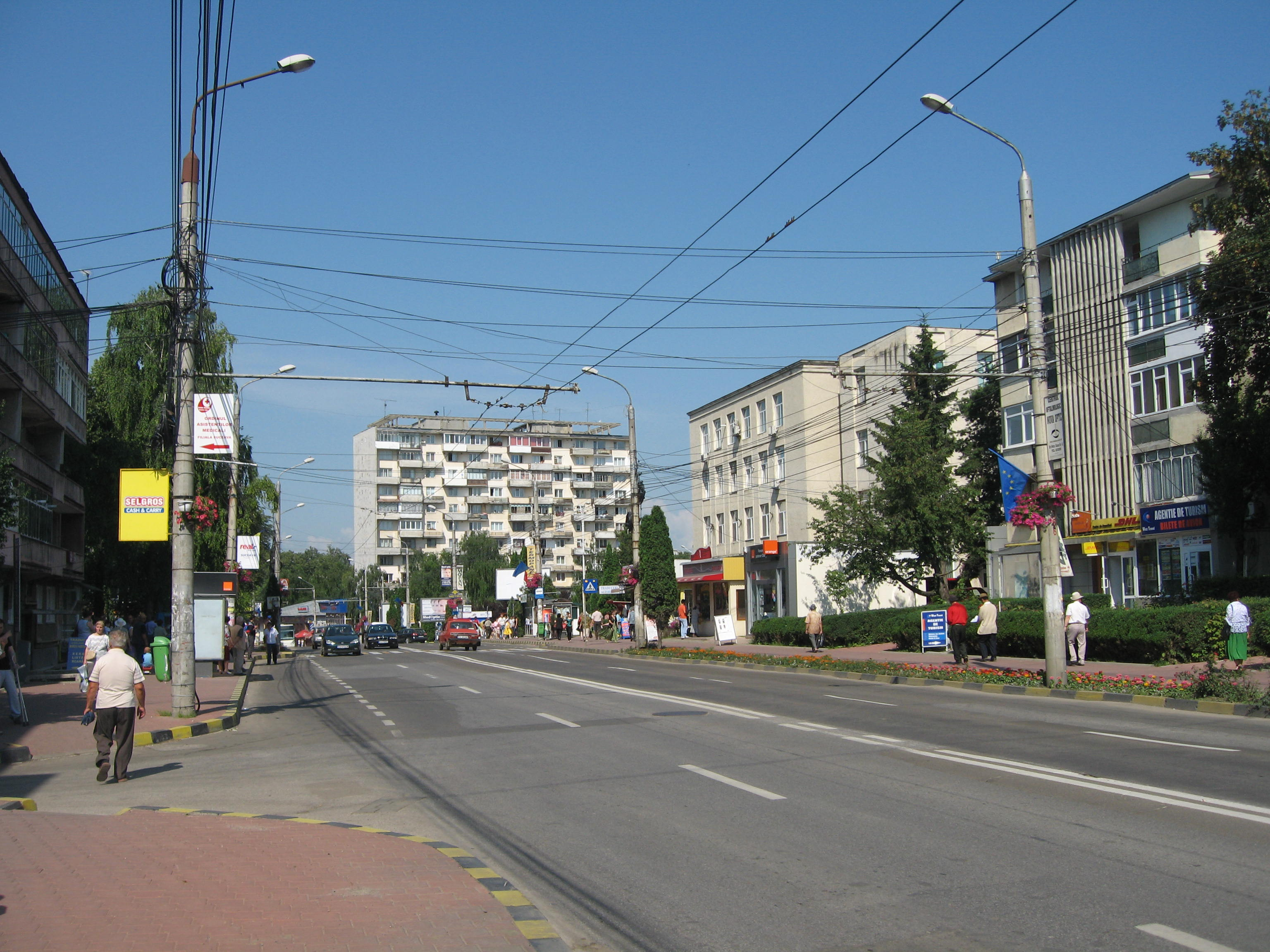 Ştefan cel Mare Street in Suceava.